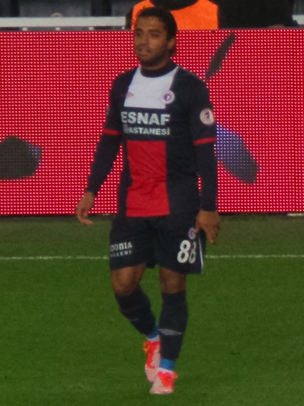 Hakan Ateş